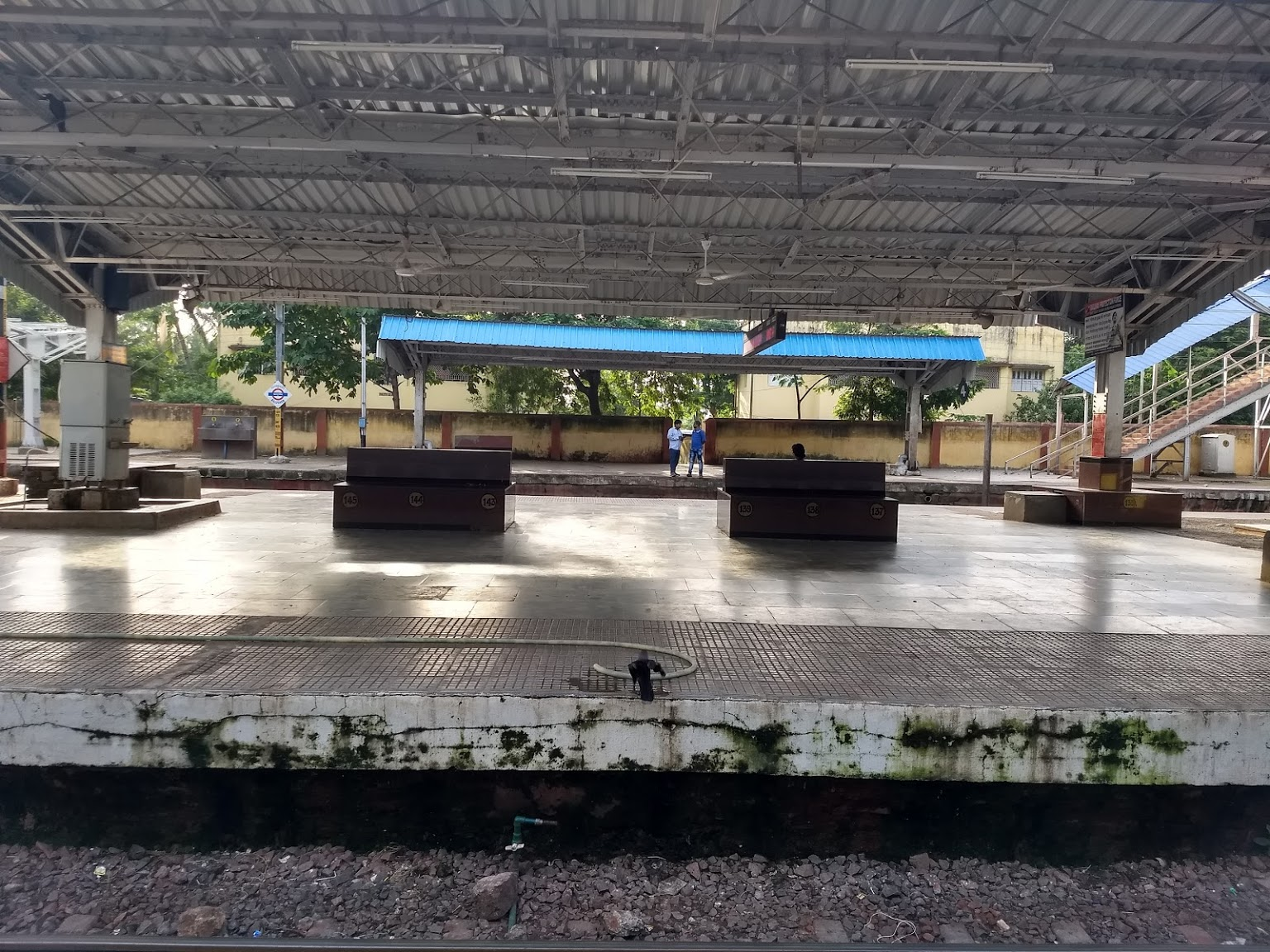 This is the Picture of Balugaon railway station